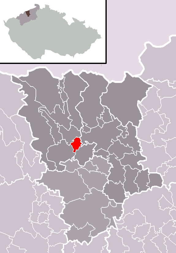 Location of Lahošť municipality within Teplice District and administrative area of Teplice as a Municipality with Extended Competence.